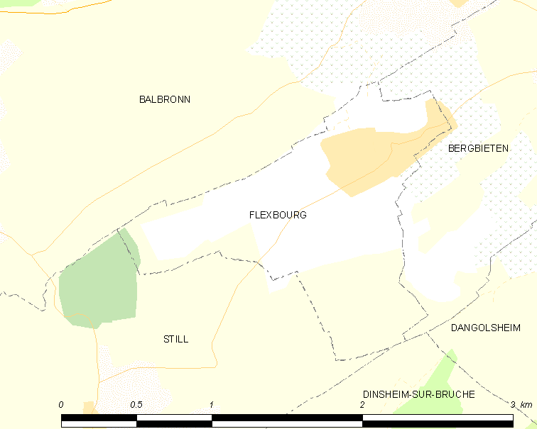 Map of French municipality